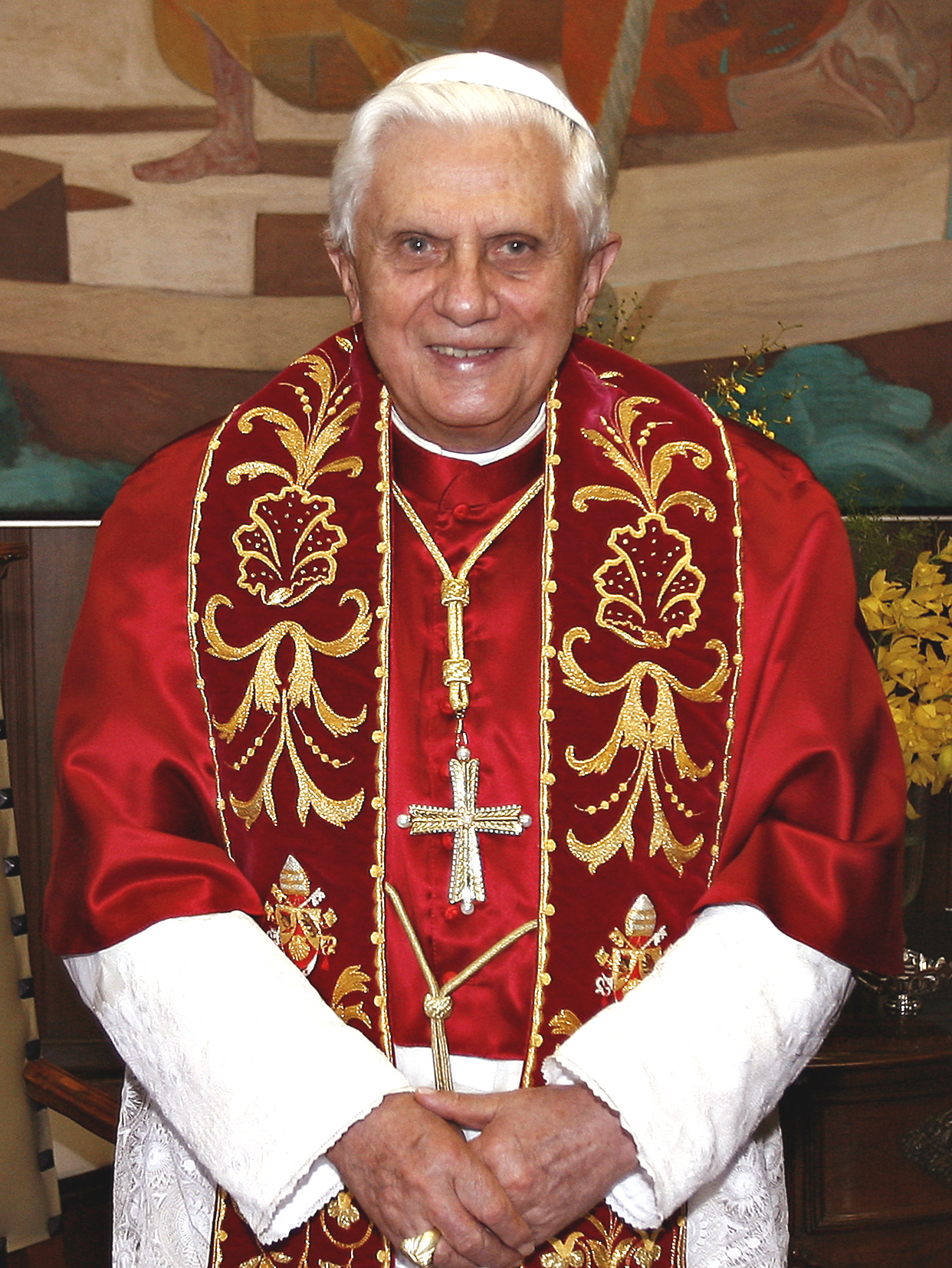 Pope Benedict XVI during visit to São Paulo, Brazil.